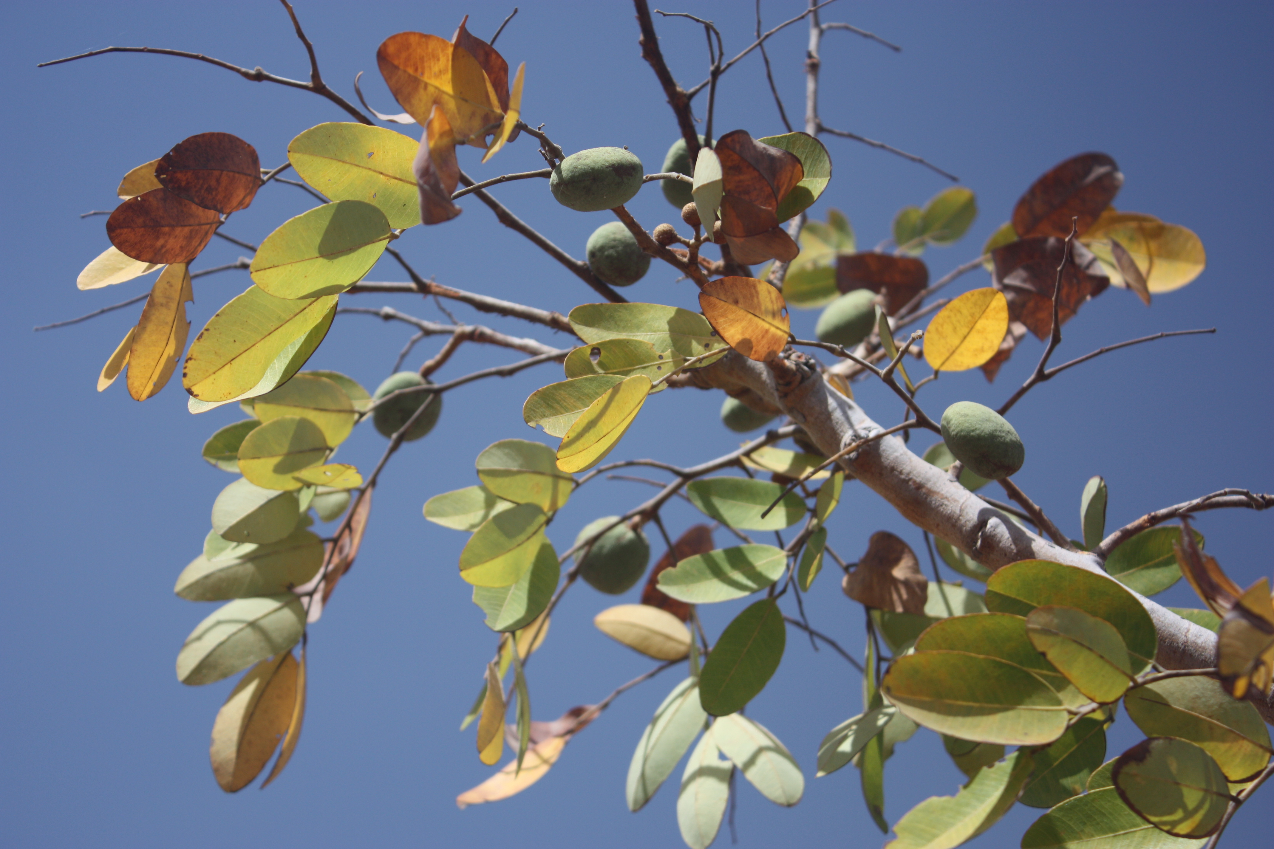 Fruiting branch of Detarium microcarpum, Ranch de Nazinga, southern Burkina Faso